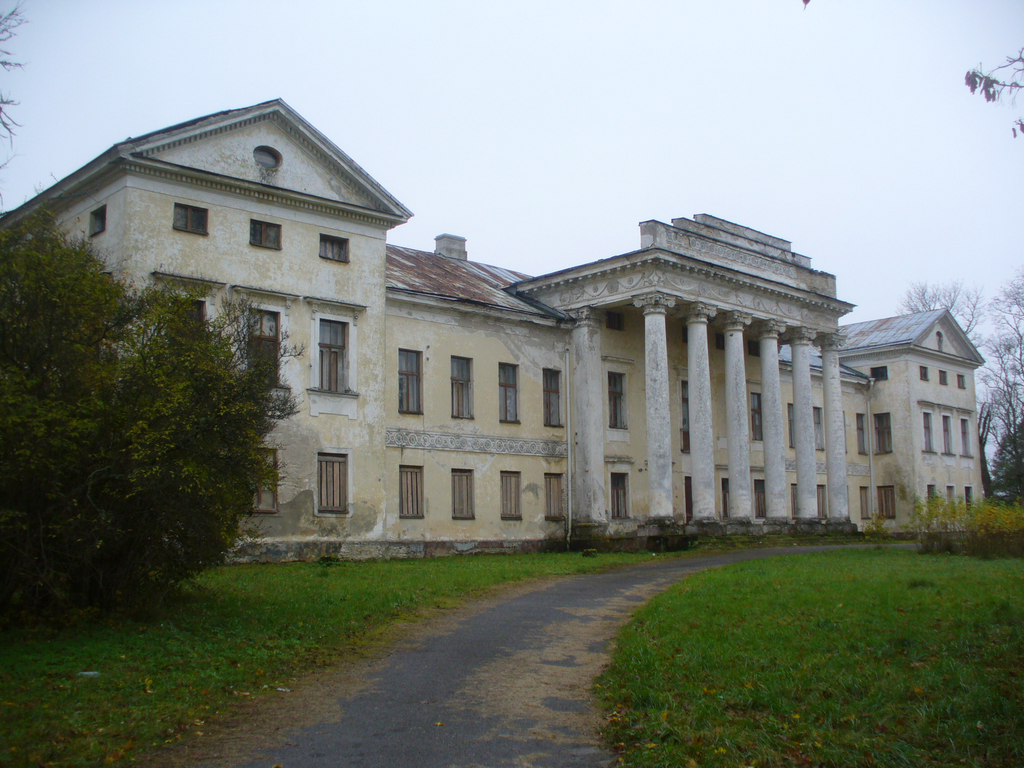 Riisipere manor house. Nissi parish, Harju county, Estonia.